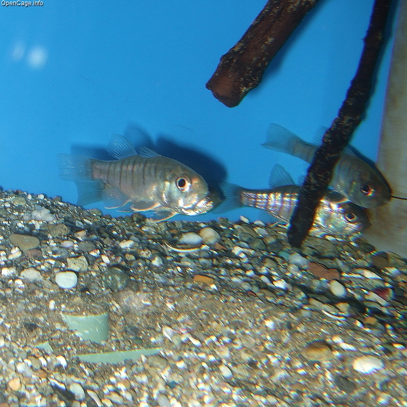 Indian perch Apogon lineatus